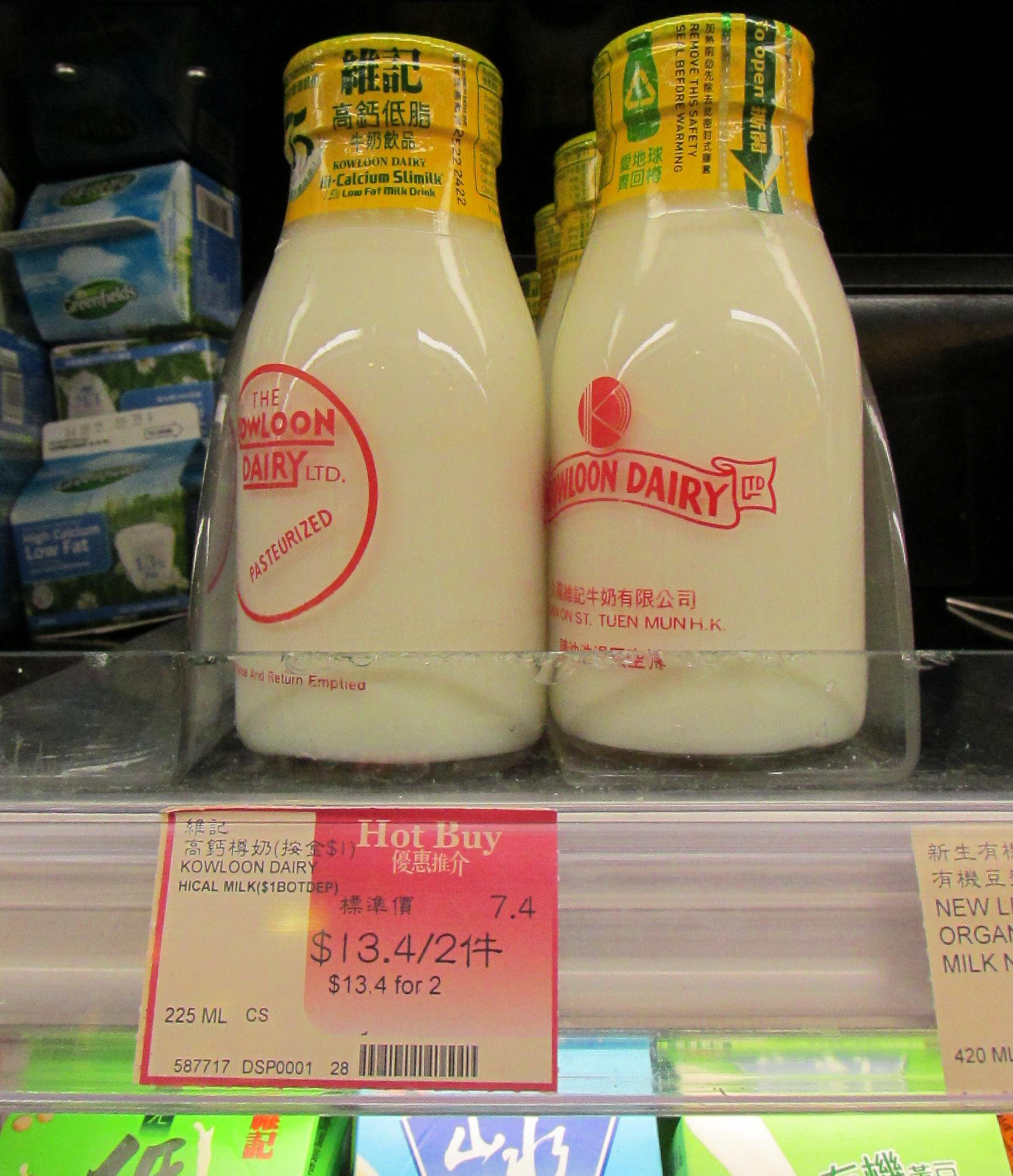 Kowloon Dairy deposit milk bottles, Hong Kong, China check usage